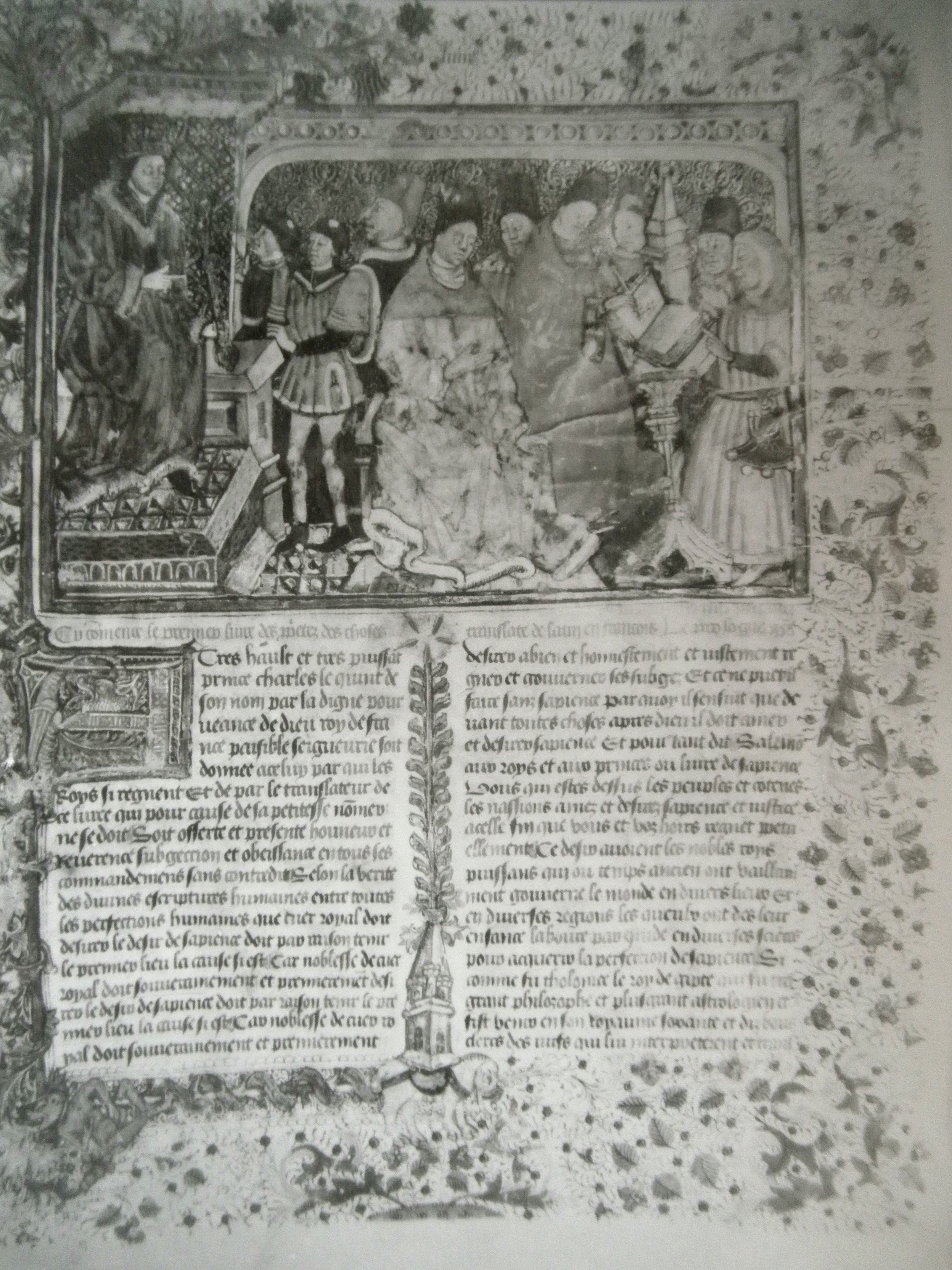 livre d'heure1